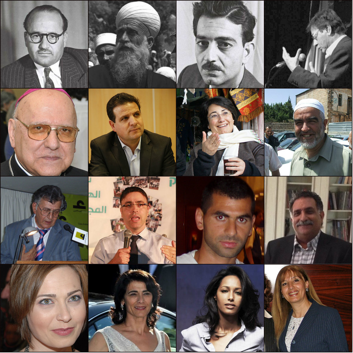 Collage Arab citizens of Israel